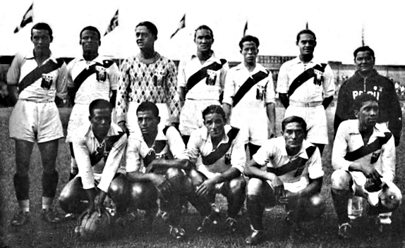 The Peru national football team that participated in the 1936 Berlin Olympics. The squad, also known as "The Black Roller" (Spanish: El Rodillo Negro), stands prior to its quarterfinals match against Austria. Front: Adelfo Magallanes, Jorge Alcalde, Teodoro Fernández, José Morales, and Alejandro Villanueva. Back: Carlos Tovar, Víctor Guarderas Lavalle, Juan Valdivieso, Arturo Fernández, Segundo Castillo, and Orestes Jordán.